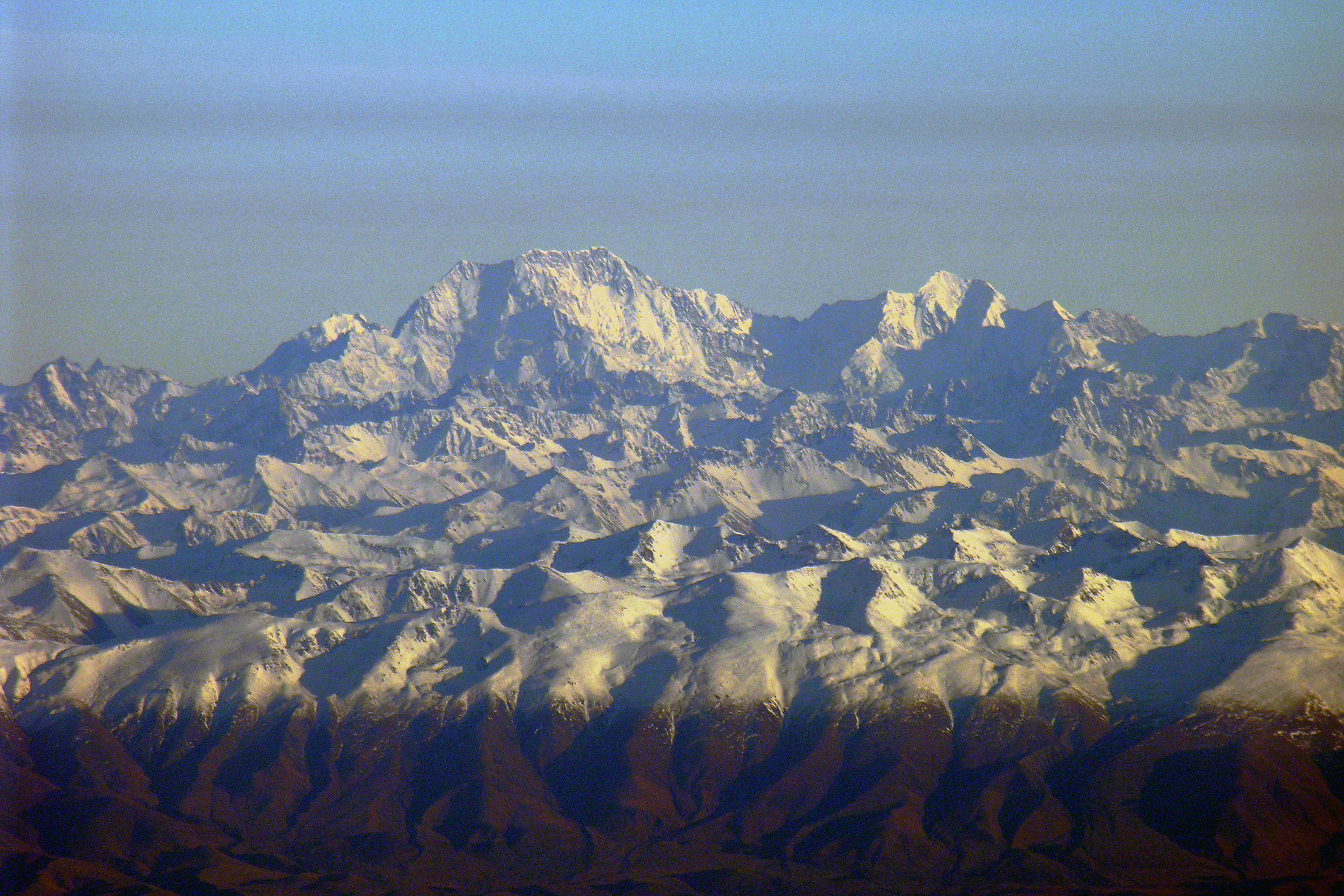 En route Christchurch to Invercargill - Aoraki/Mount Cook and Mount Tasman, Southern Alps, New Zealand